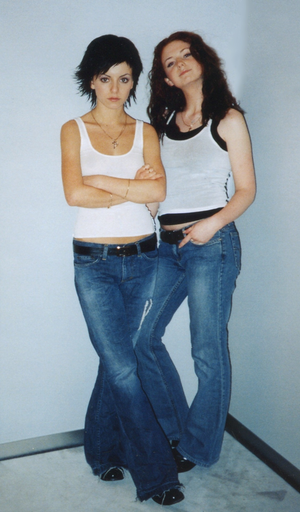 Julia Volkova & Lena Katina, the Russian pop group, t.A.T.u..